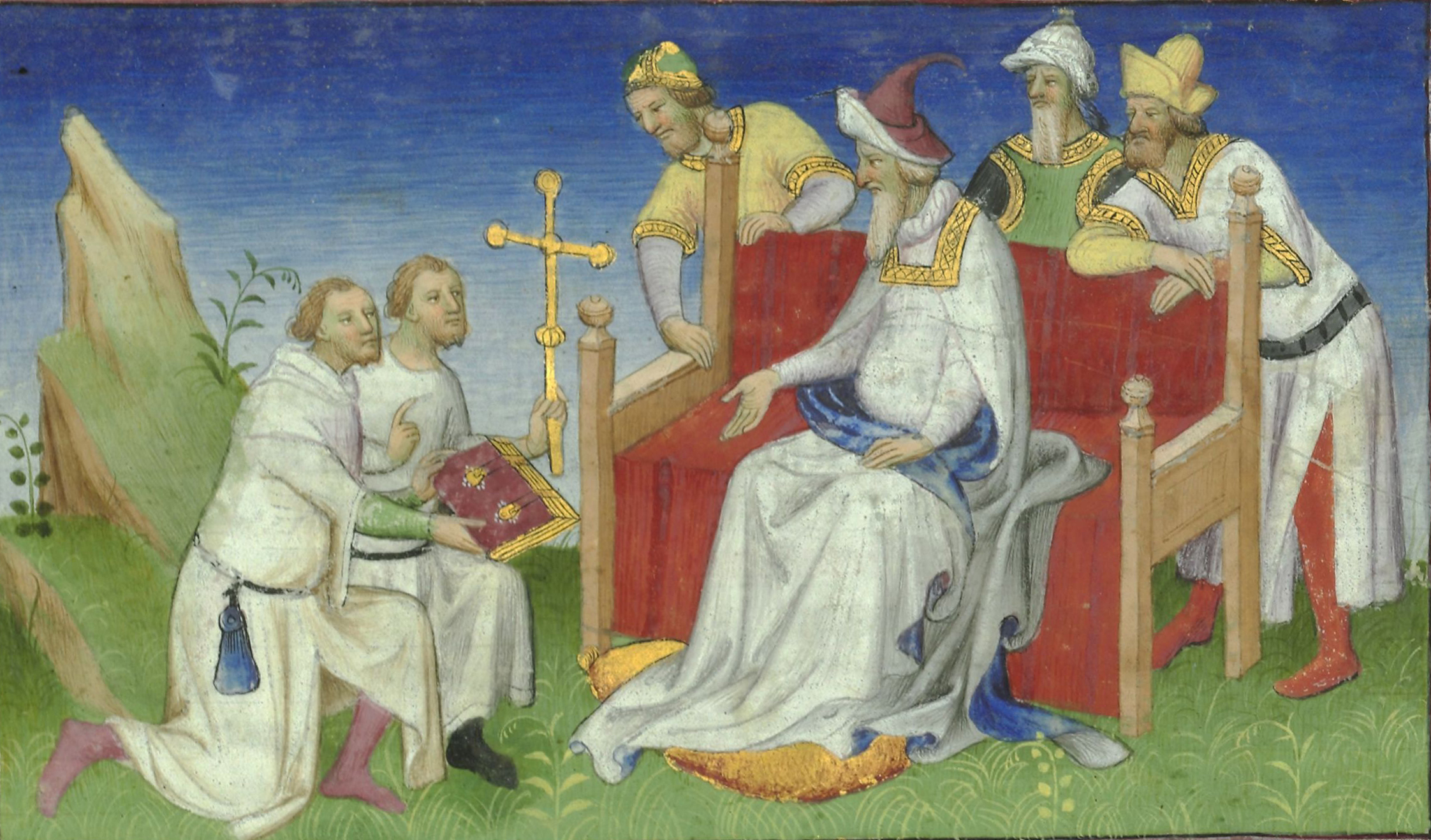 The Polo brothers returning to Kubilai with presents from Pope Gregory X. "Le Livre des Merveilles", 15th century.